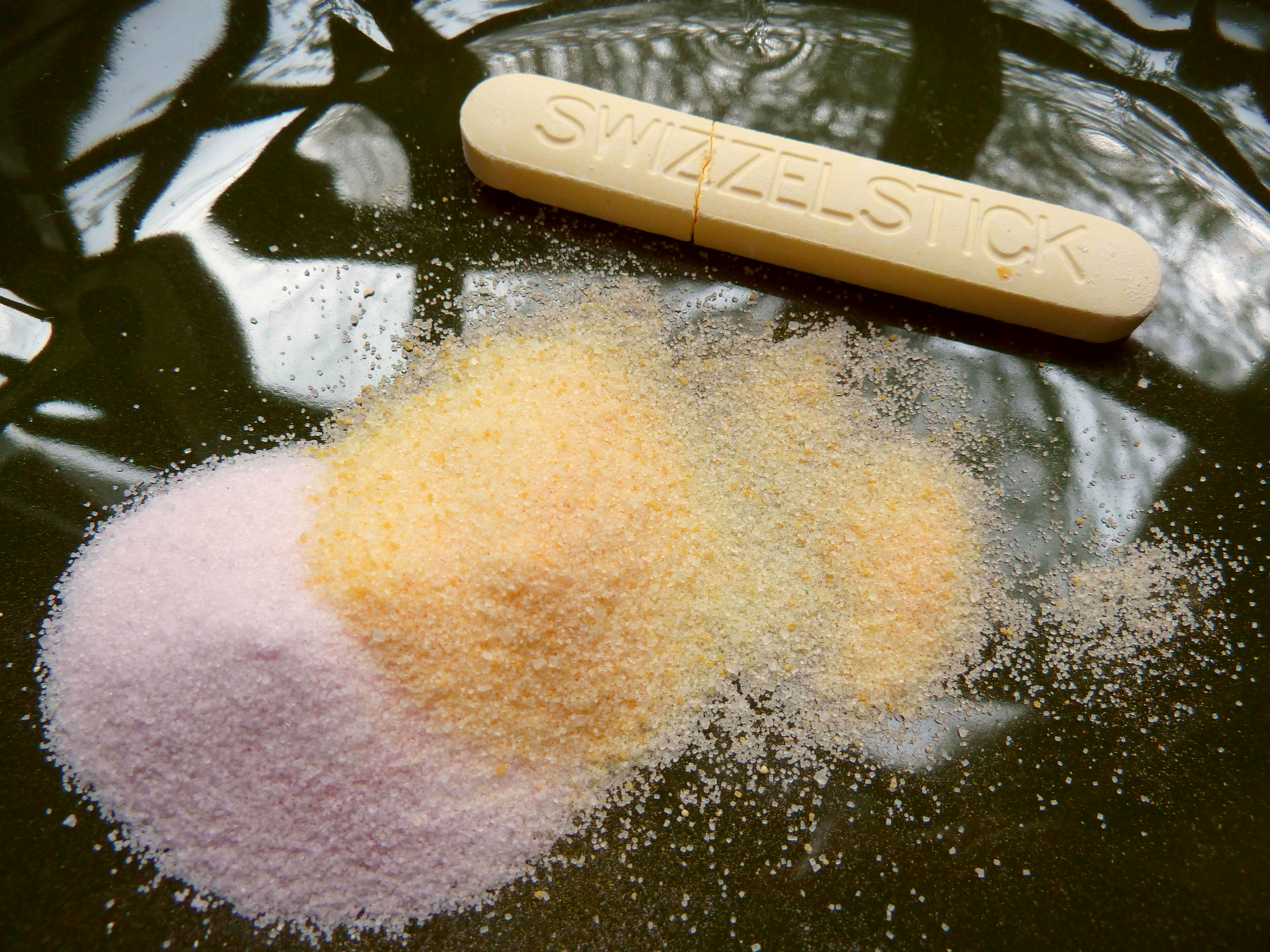 Swizzels Double Dip confectionery, consisting of an edible dip stick and sherbert in two flavours - orange and cherry. Manufactured by Swizzels Matlow in Derbyshire, England. From a 19g packet. Note: The postman stuffed this merchandise through the letterbox, breaking the sticks in all the sample packets. So this set of images shows broken sticks.